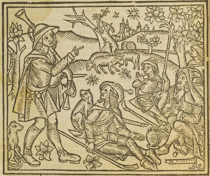 Kalender of Shepherdes is a miscellany of religious, farming, astrological and medicine texts and illustrations that was first seen in the 15th century. [page detail]